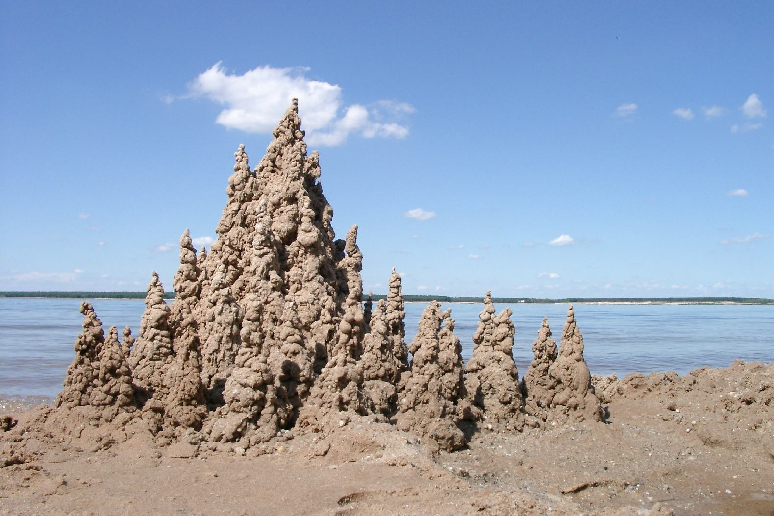 A sandcastle